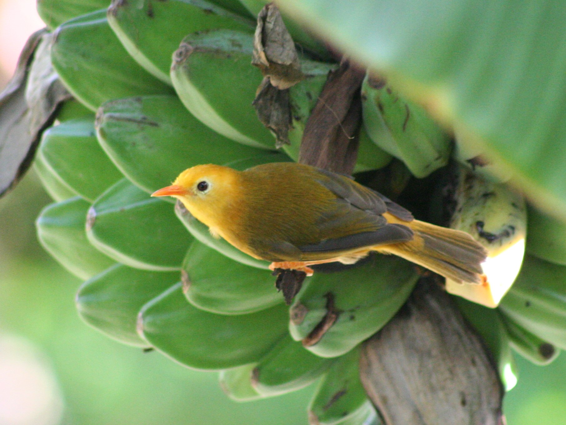 Otherwise known as the Golden White-Eye Cleptornis marchei. This one hanging out on a banana bunch.